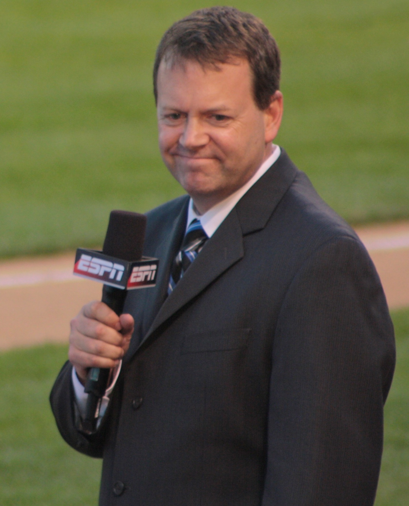 ESPN's Buster Olney on the field for interviews before game time. Either a fancy camera or an alien space craft hovers nearby.